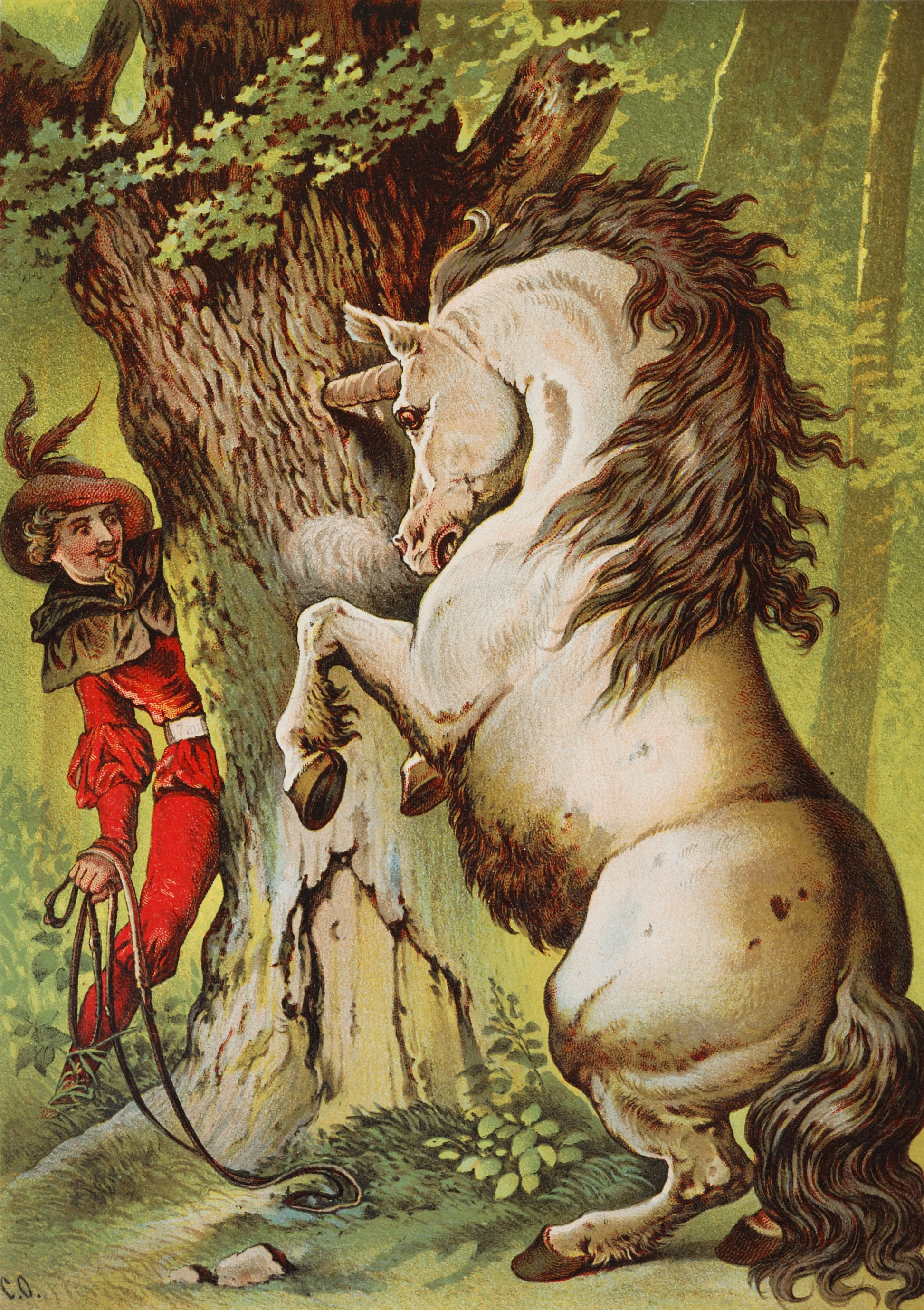 The Valiant Little Tailor, illustration by Carl Offterdinger